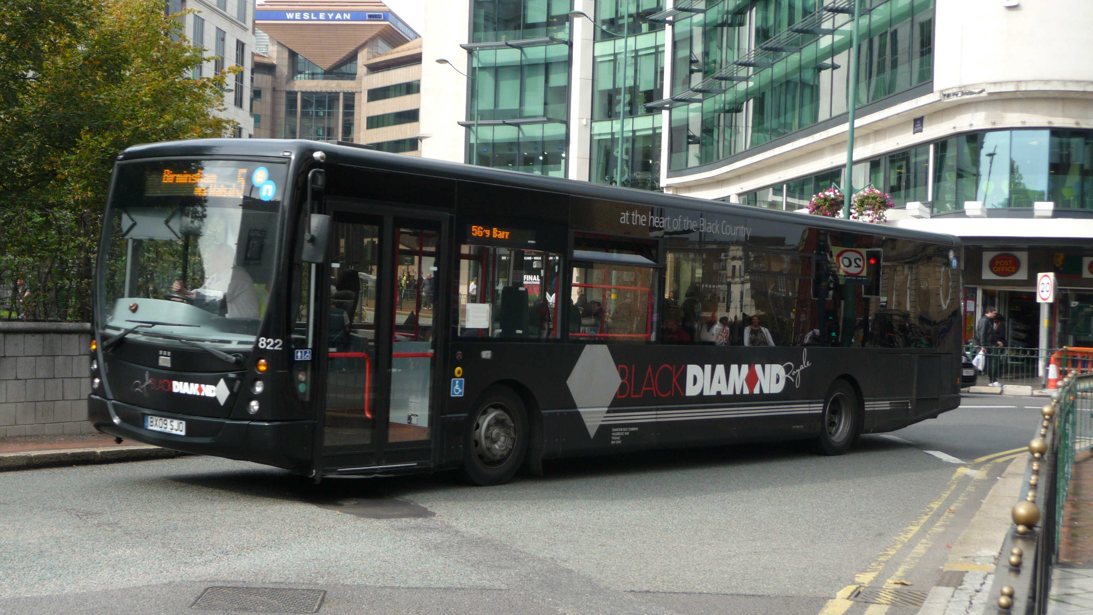 Diamond Bus 821 (BX09 SHZ), a Volvo B7RLE/Plaxton Centro, pulling out from Corporation Street onto Old Square, Birmingham city centre, on route 56.